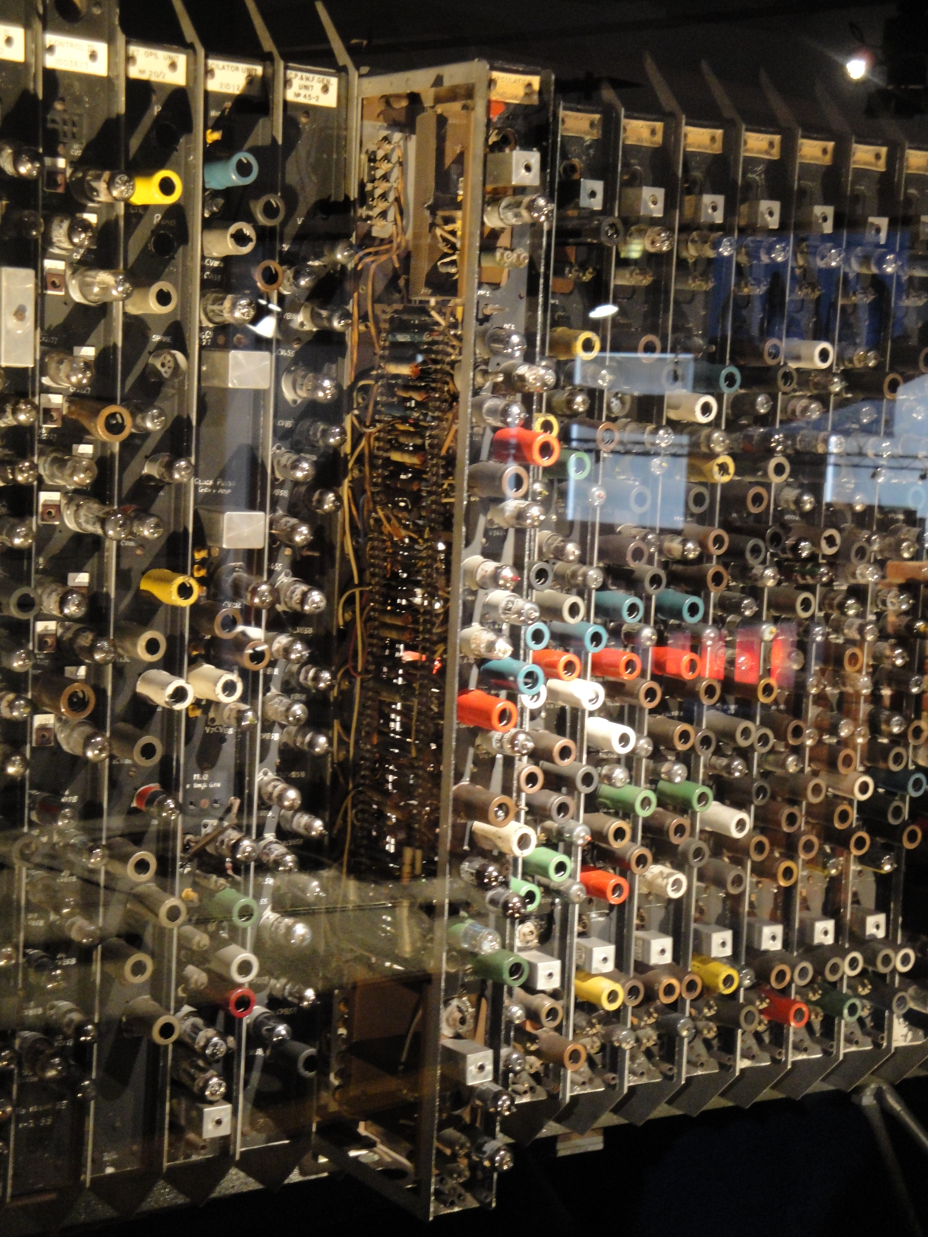 Pilot ACE computer on display at Science Museum in London